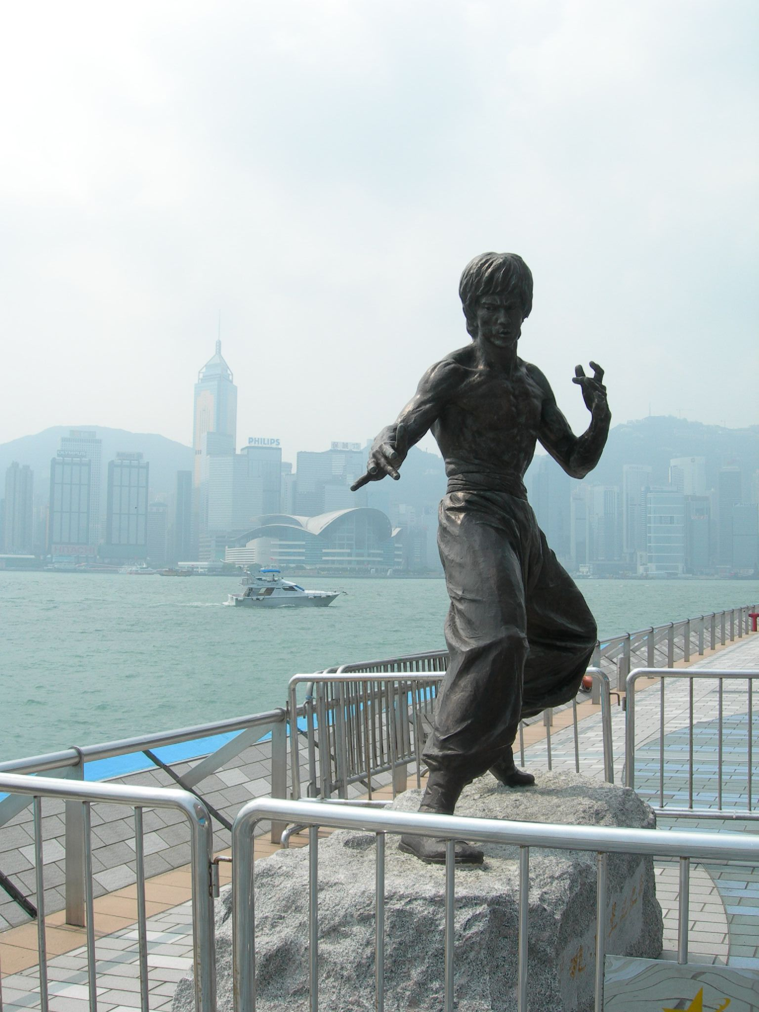 Bronze Statue by Cao Chong-en of Bruce Lee in Hong Kong. Erected to mark his sixty-fifth birthday, it was unveiled on November 27, 2005 and honoured Lee as Chinese film's bright star of the century.